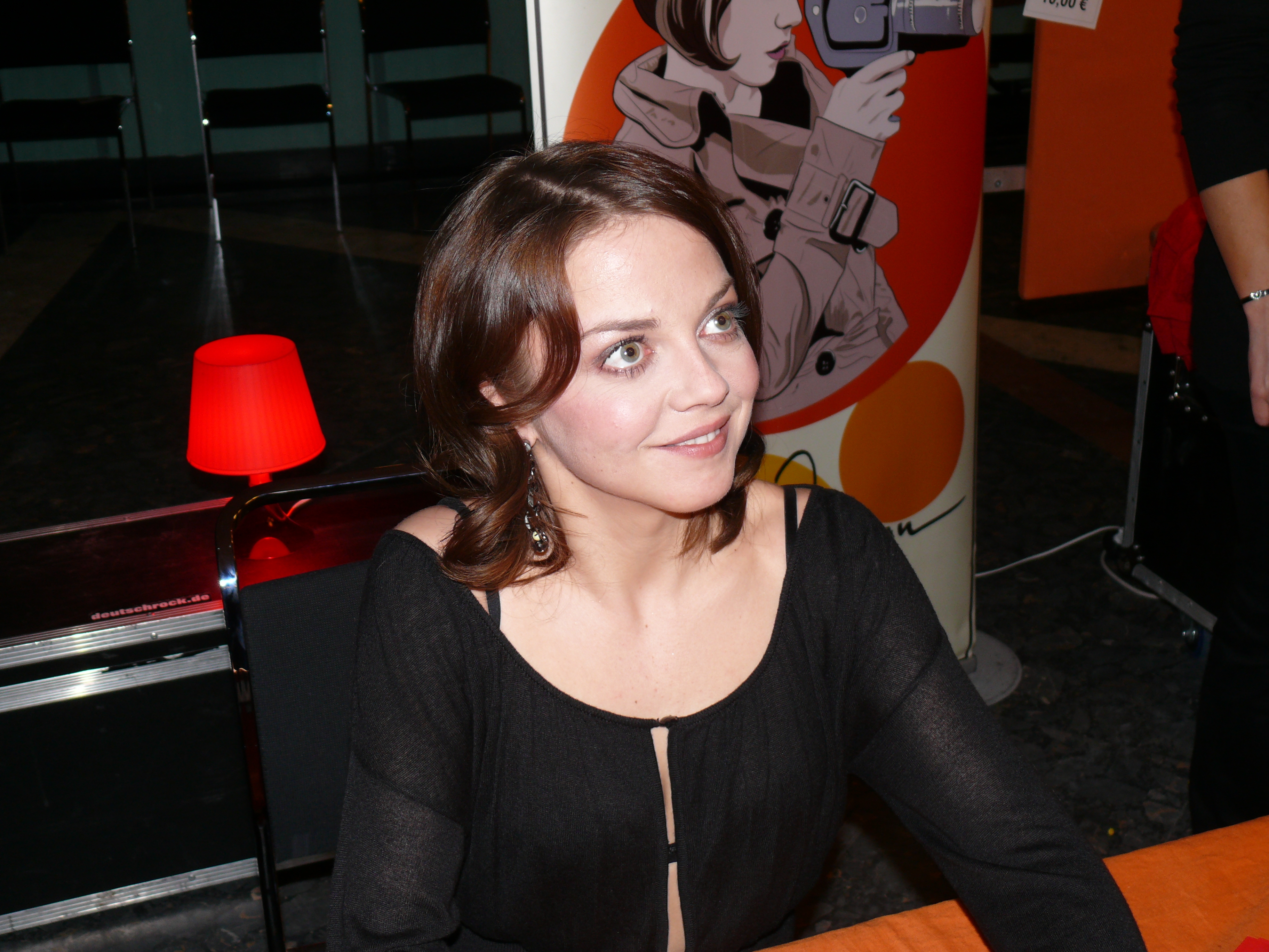 Singer Annett Louisan at Liederhalle, Stuttgart on March 15th 2009